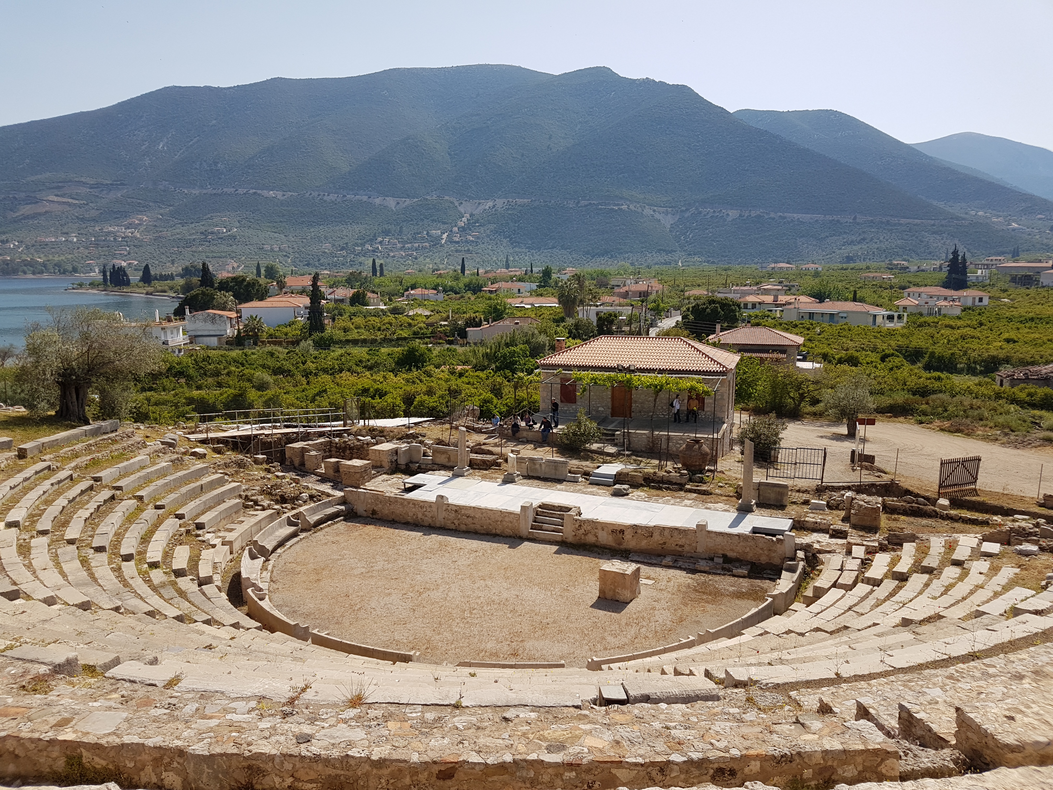 Palea Epidavros, Peloponnese, Greece: Small theatre (4th cent. BC)